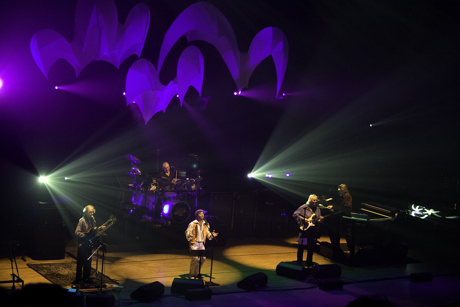 Yes concert at Massey Hall, Toronto, Ontario